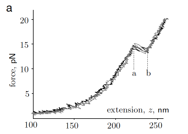 [J. Liphardt.]